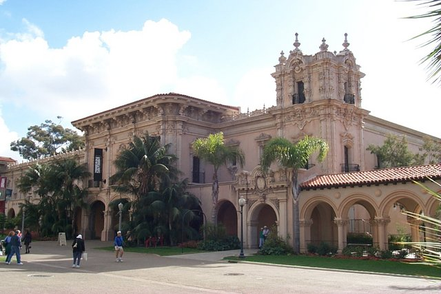 Casa de Balboa, Balboa Park, San Diego, United States. As of December 2009 the home of the Museum of San Diego History and Research Library, Model Railroad Museum, and the Museum of Photographic Arts.